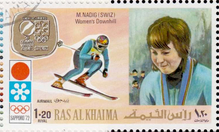 Marie-Theres Nadig